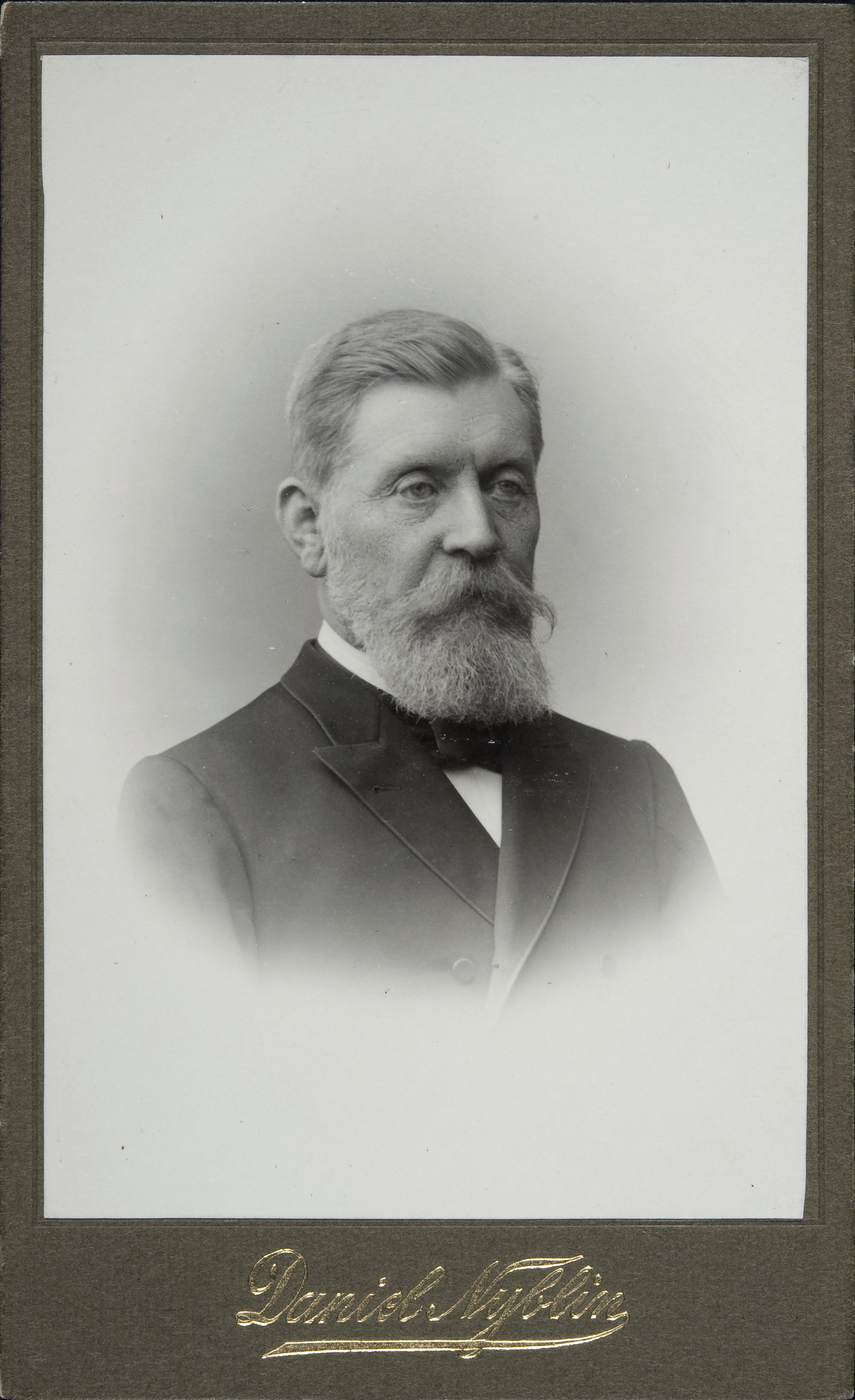 Photograph of the Finnish lieutenant general Waldemar Schauman (1844–1911).